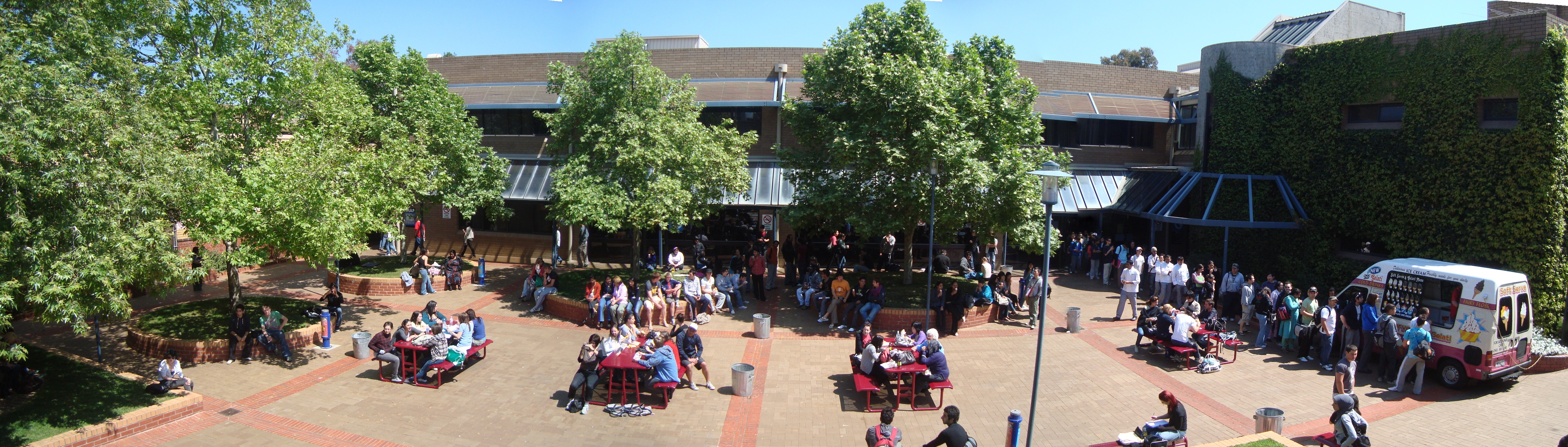 Northern Melbourne Institute of TAFE Preston Campus Quadrangle at lunch time. October 2008.